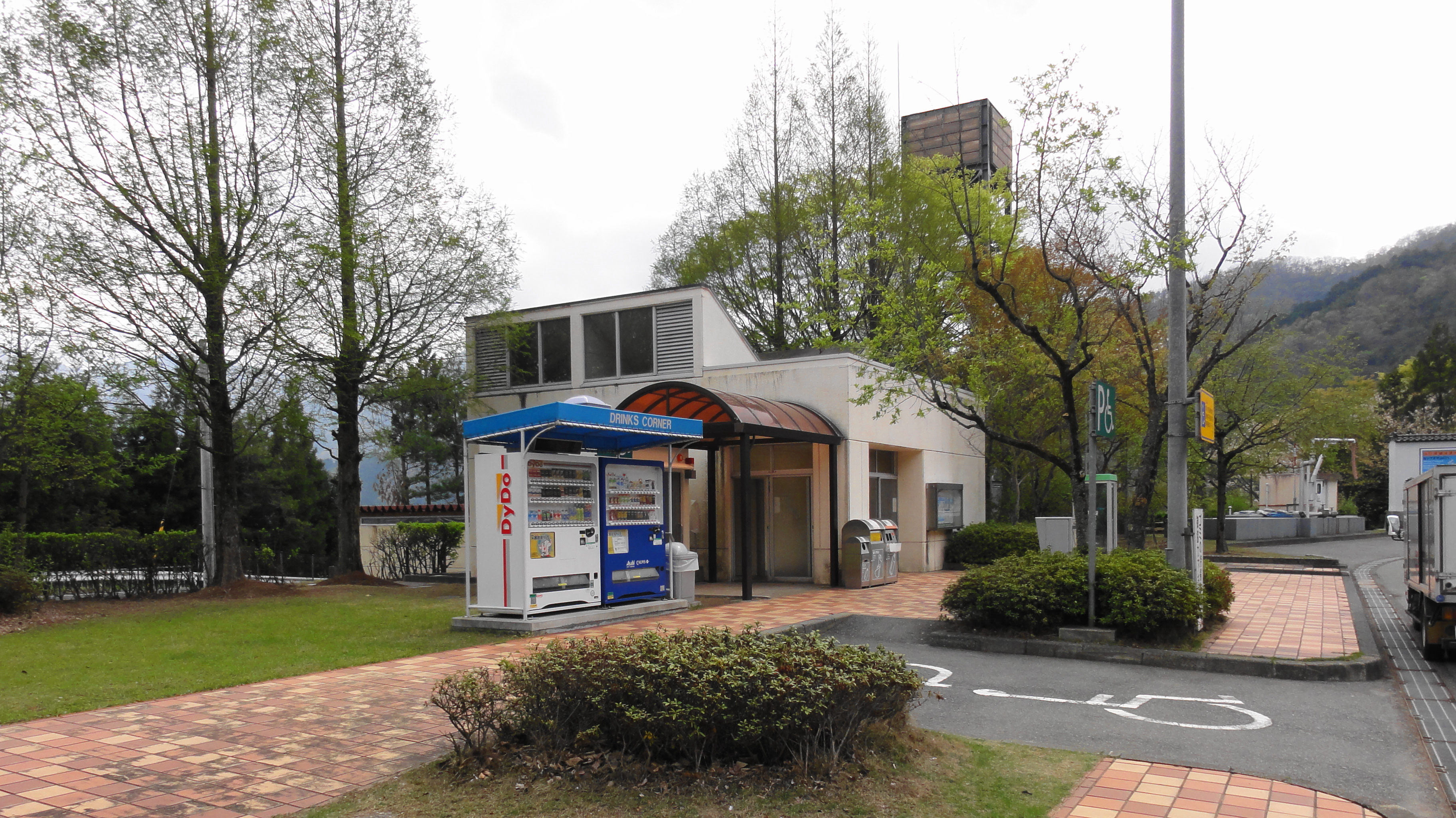 Asakura Parking Area,Shimane prefecture,Japan